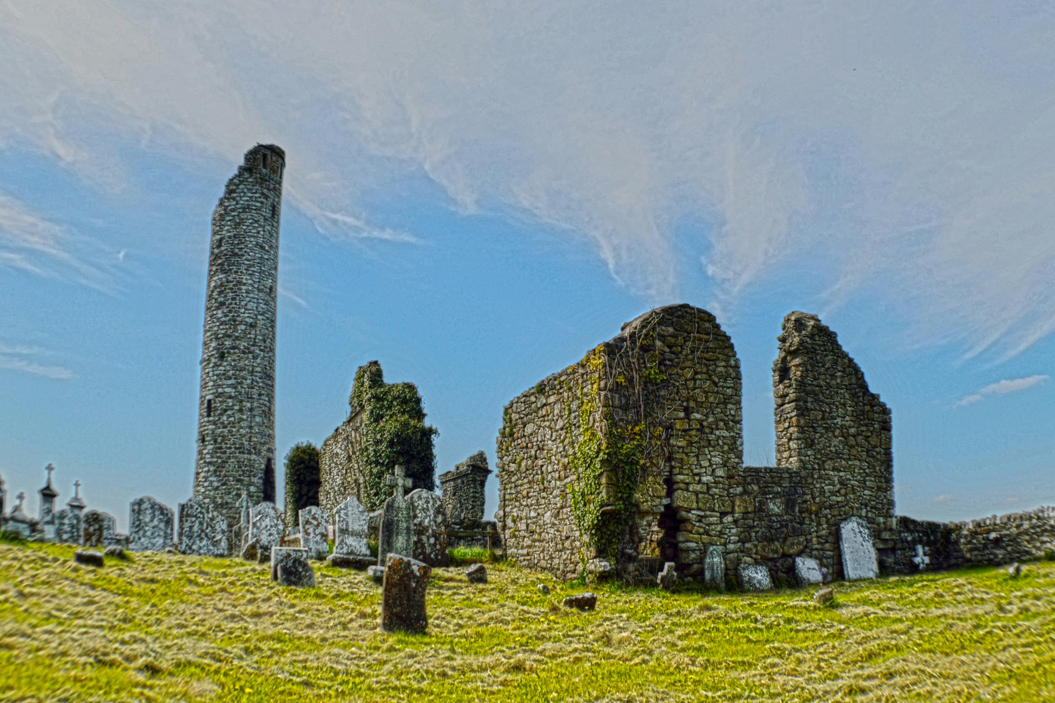 Tullaherin Monastic Site The early 9th Century Round Tower,old church and graveyard